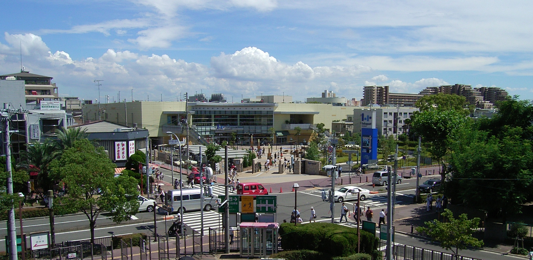 LaLaport Koshien, Nishinomiya city, Hyogo prefecture, Japan